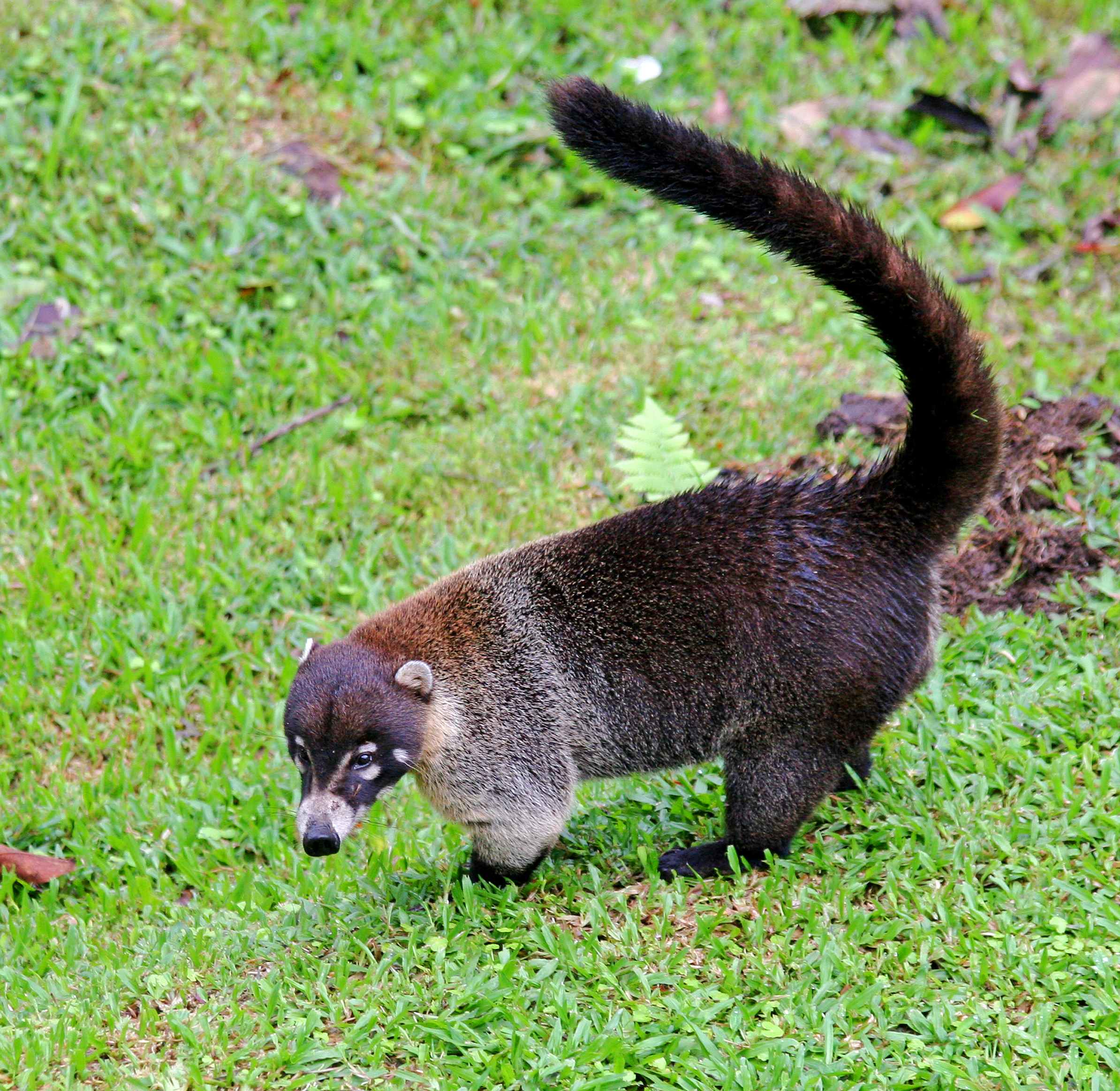 White-nosed Coati photo taken at Arenal Observatory Lodge, Costa Rica.